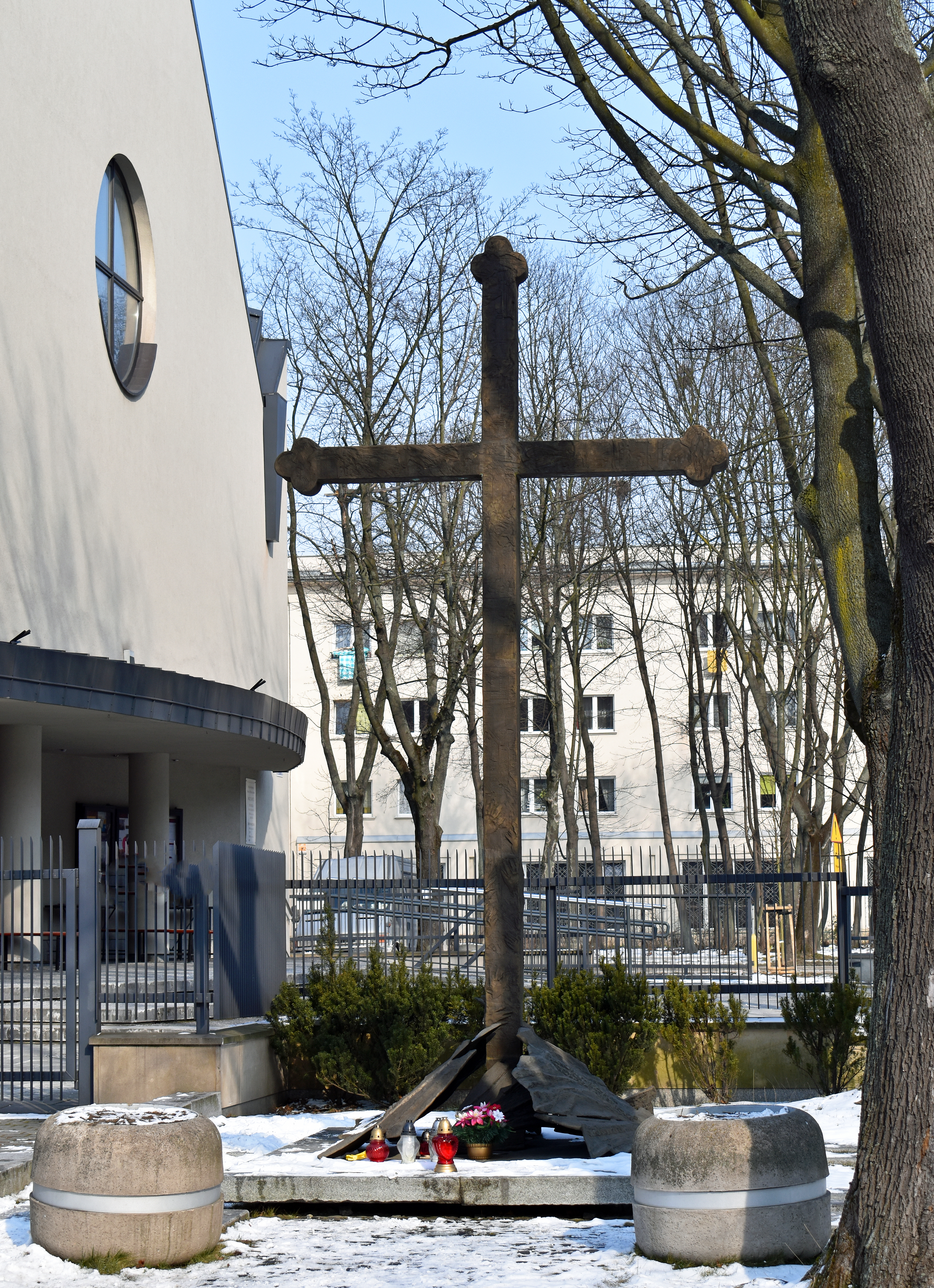 Nowa Huta Cross Memorial, Nowa Huta, Krakow,Poland